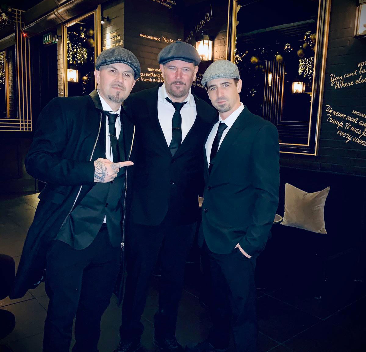 Current East 17 lineup featuring Terry Coldwell, Robbie Craig and Joe Livermore